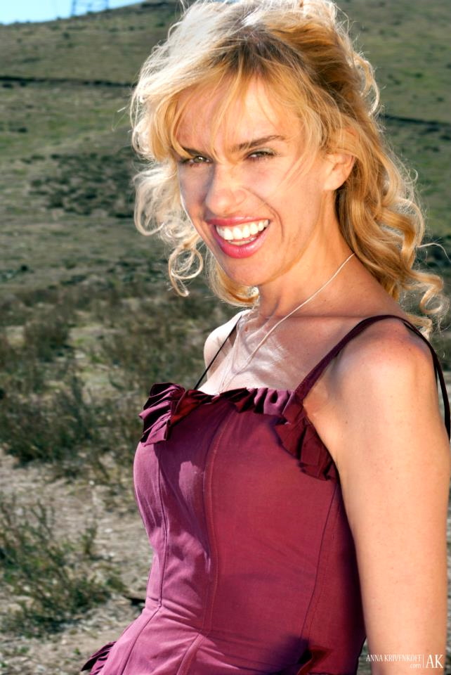 Sadie Kaye in 'West of Thunder' (2012)